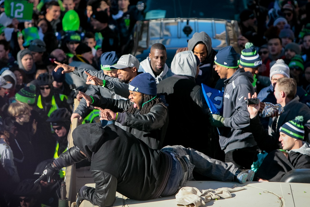 Seahawks defensive backs at Super Bowl winning parade in Seattle, 02.05.2014